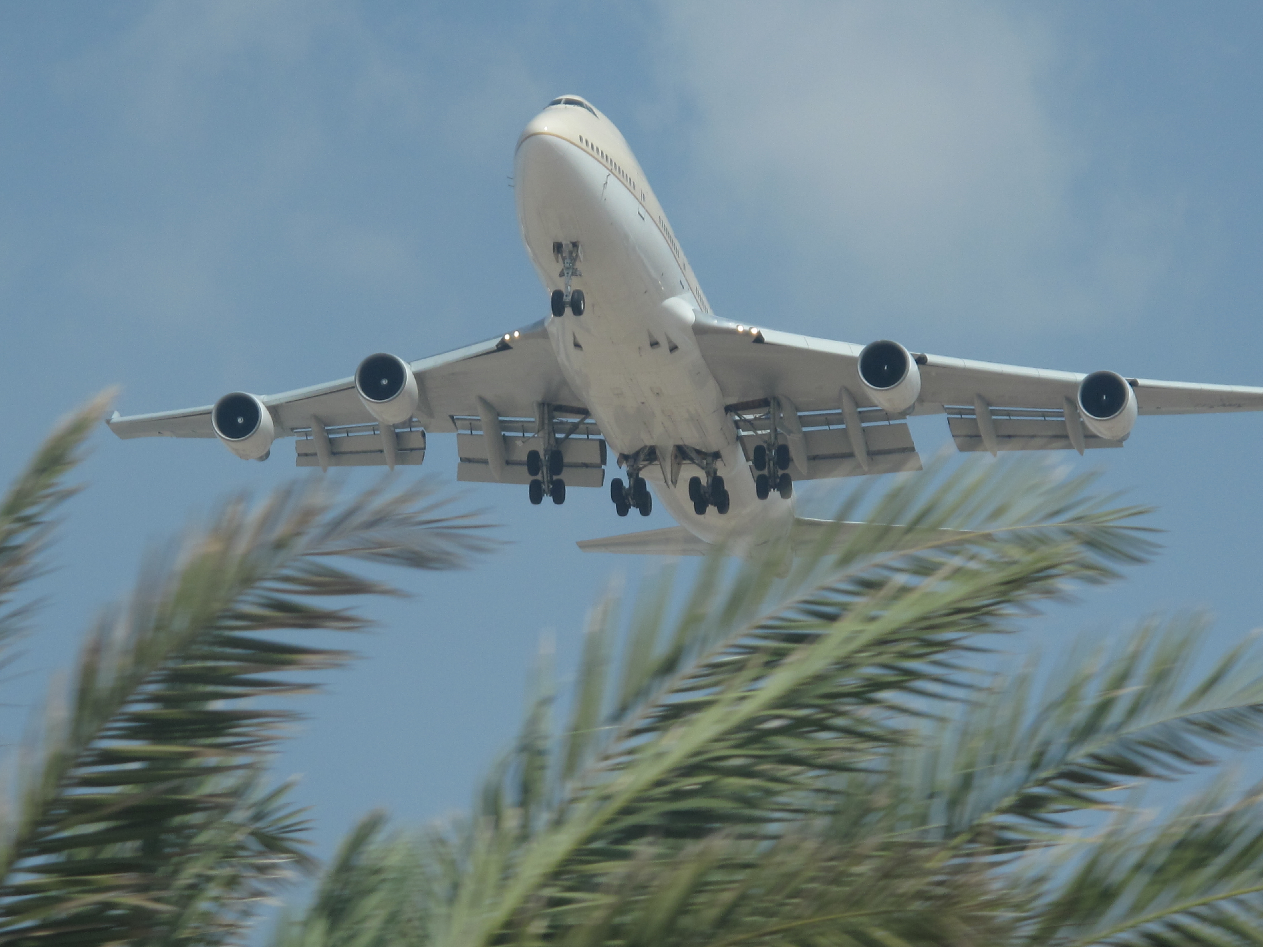 Saudi Airlines Boeing 747 landing at Jeddah Airport.